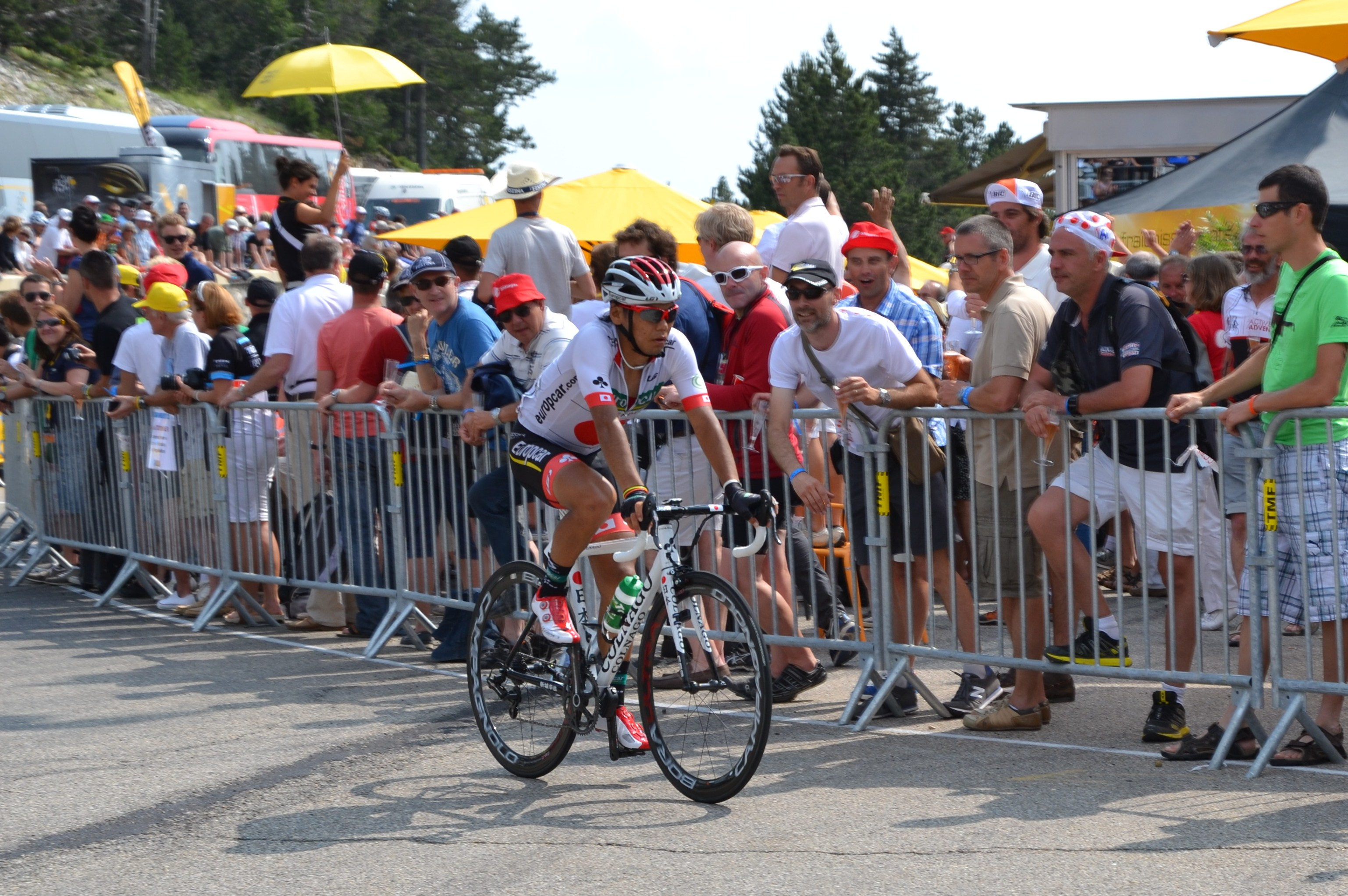 Yukiya Arashiro during the ascent of Mount Ventoux, Tour de France 2013